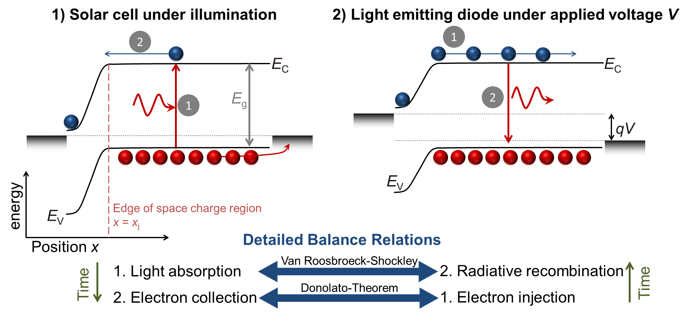 Schematic description of the reciprocity between photovoltaic operation and luminescent operation of a pn-junction diode.